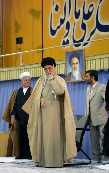 Ali Khamenei meeting in Eid al-Fitr (4 November 2005)